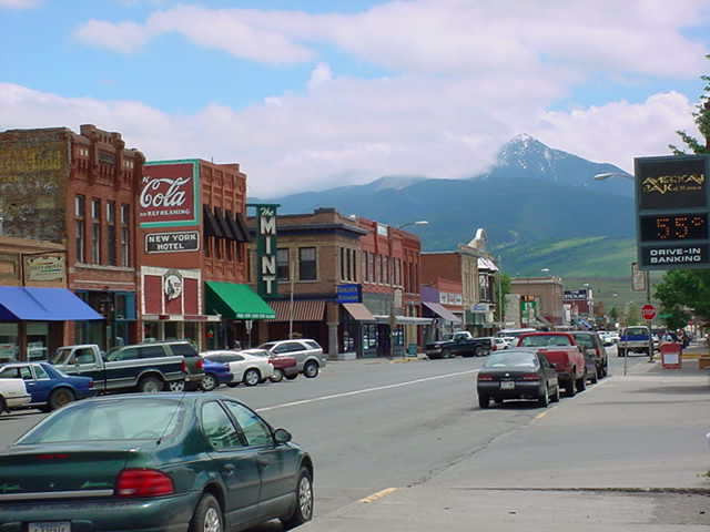 View of Downtown Livingston Montana. Viewpoint is on Main St., between E. Park and E. Callender Sts., looking southeast along Main St.